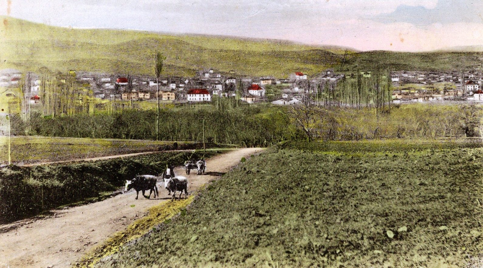 Village Carevo Selo, Makedonija, nowdays Delchevo, photo 1920's This media file is produced by Wikipedian in Residence in Category:Wikipedian in Residence at DARM in 2016.